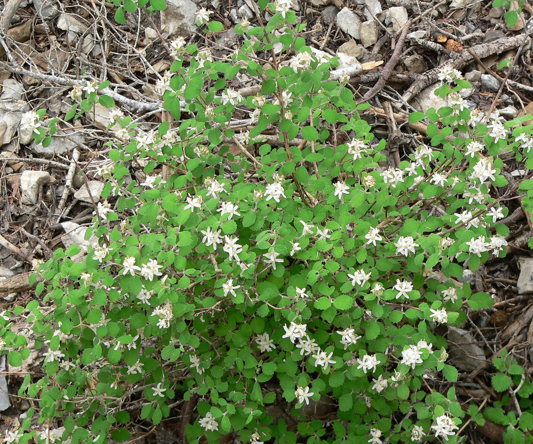 Jamesia americana alongside the South Loop trail, Kyle Canyon, Spring Mountains, southern Nevada (elev. about 2600 m)